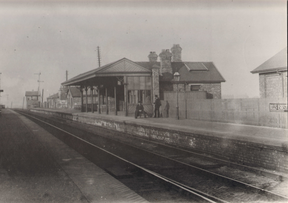 This image shows Seaton Carew Railway Station was it would have looked towards the end of the 19th century. Originally built to carry coal by horse drawn carriage during the first half of the 19th century, the carrying of passengers on this line was becoming ever more popular, as travel became accessible to the masses. Photograph Collection Number 687